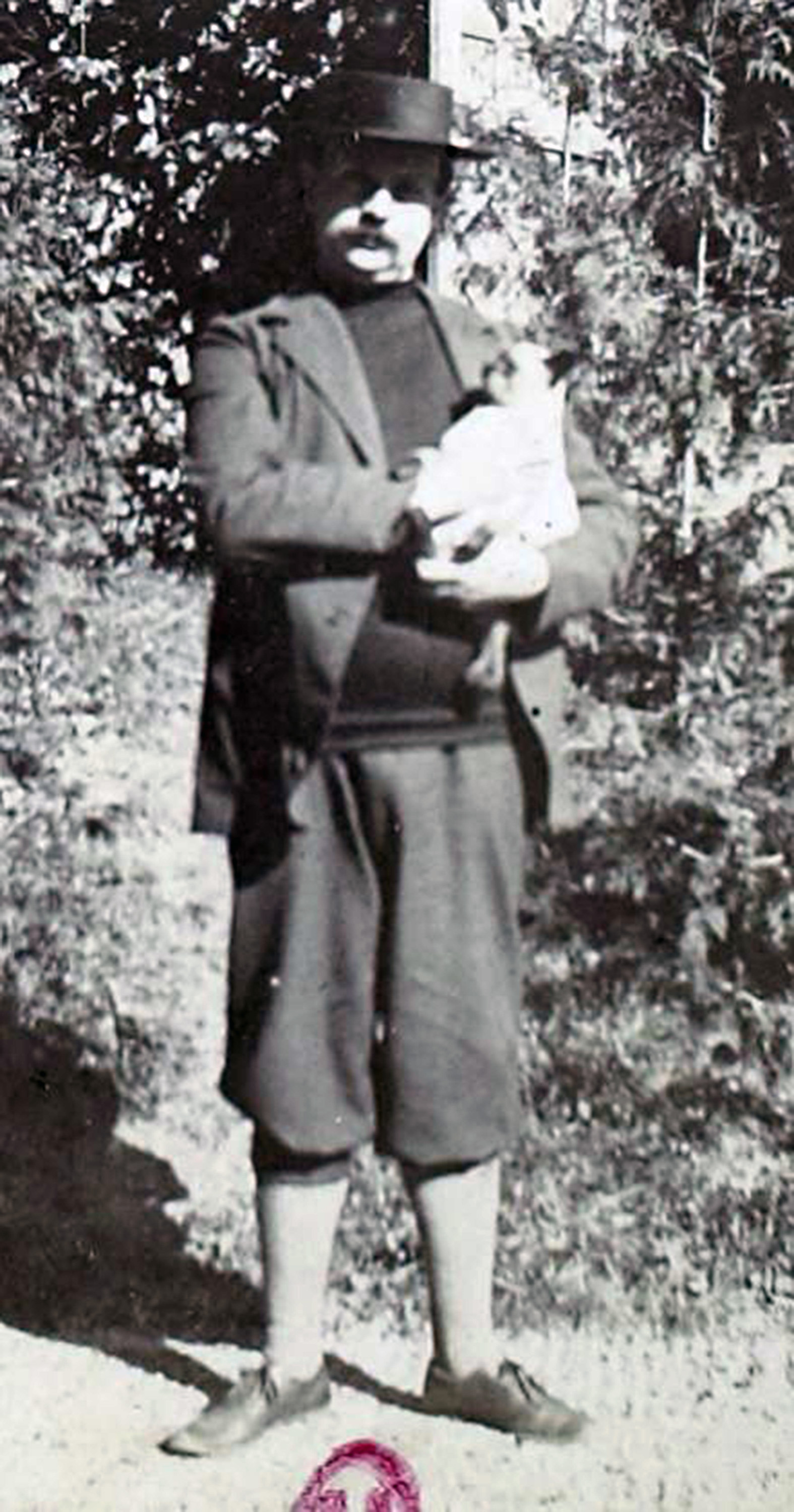 Maxime Dethomas (1867-1929) with his Persian cat (c.1900). Taken at the Bulteau estate c.1900